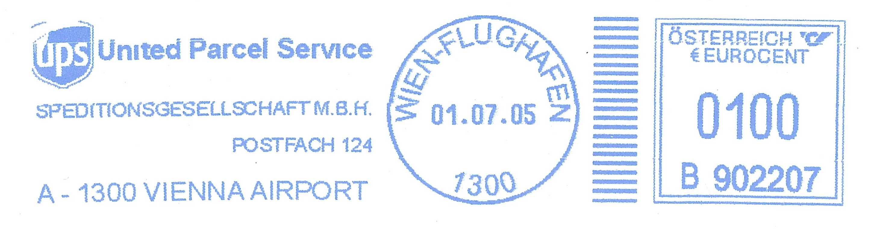 Postage meter in Austria.